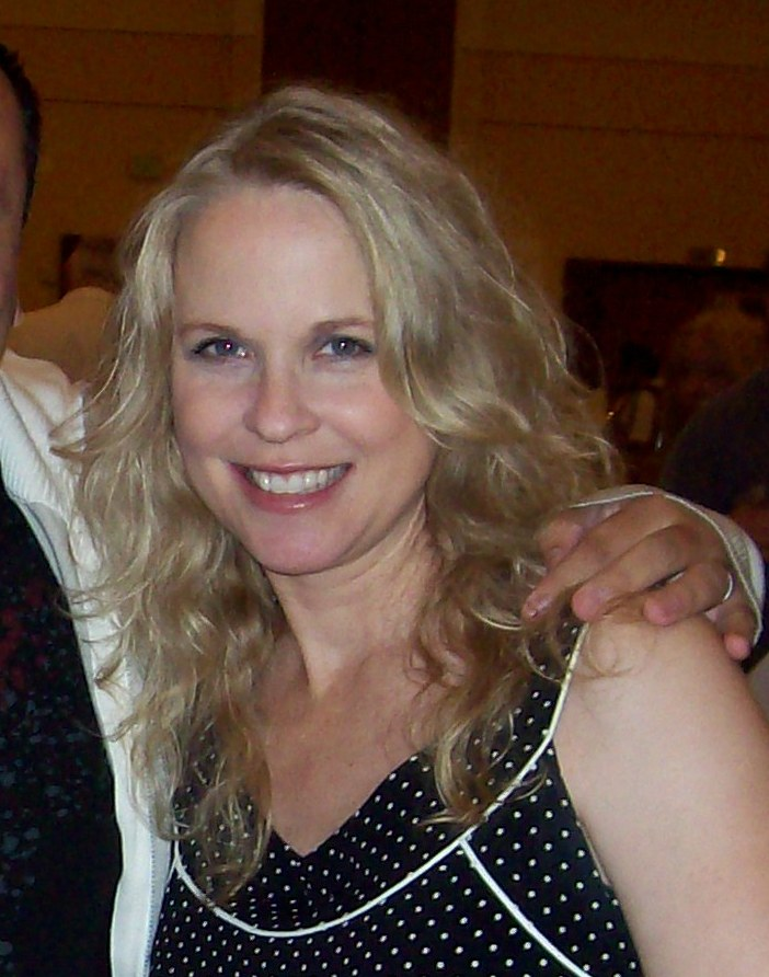 Photograph of actress Brooke Theiss, taken at a celebrity autograph collector's convention in Burbank.